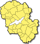 blank map of Landkreis Landshut, Lower Bavaria, Germany